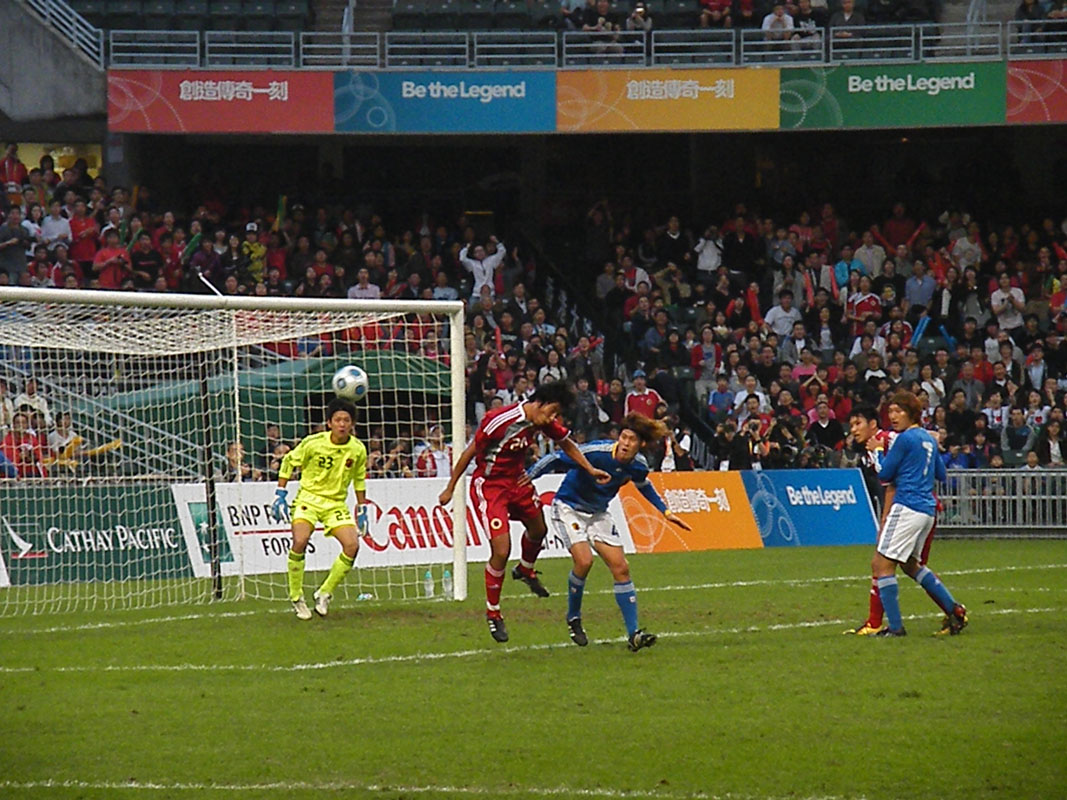 2009 East Asian Games Football Final Match - Hong Kong, China vs Japan at Hong Kong Stadium on 2009.12.12.